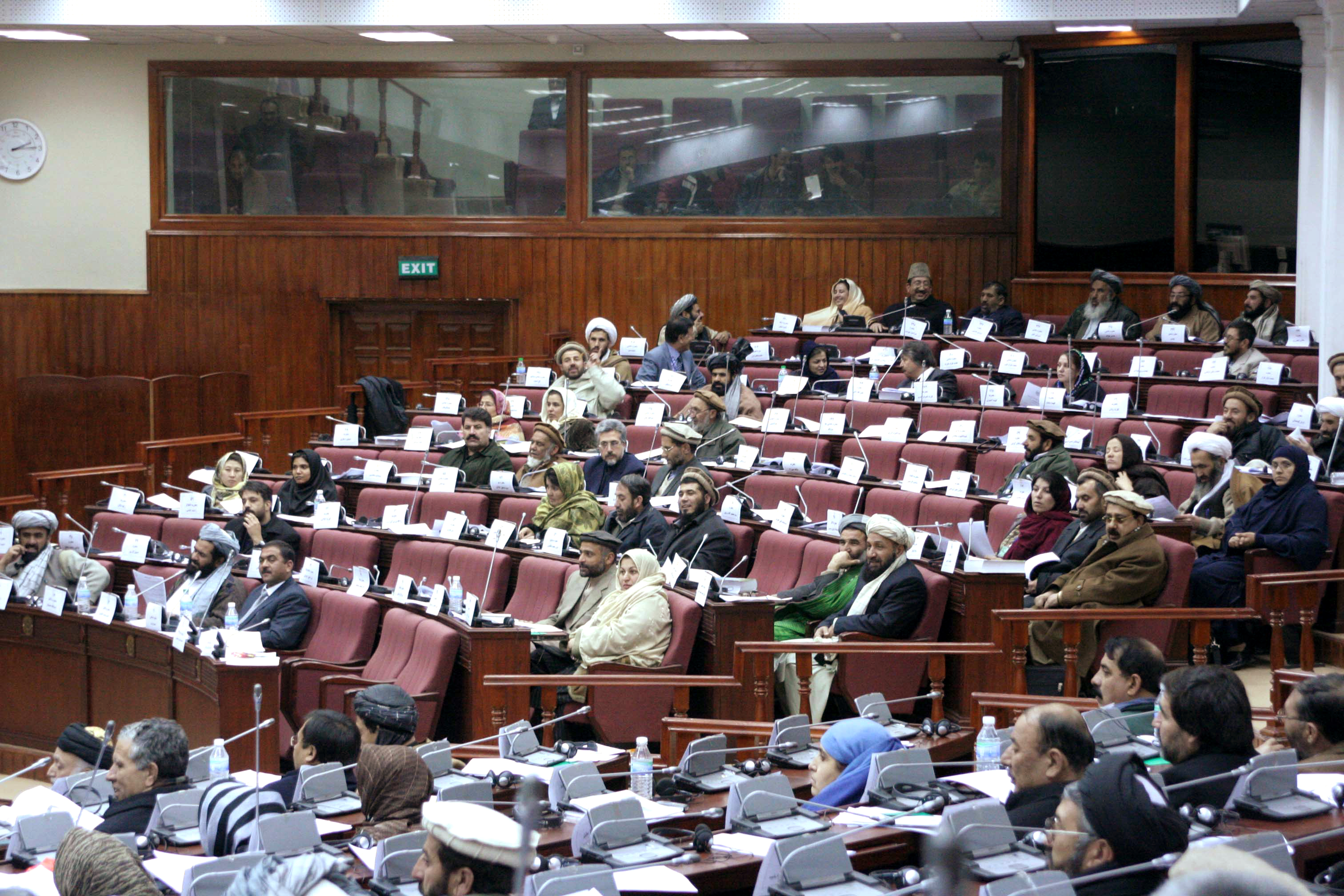 An inside view of the old Afghan parliament building. Men and women participate in the parliament discussion session in 2006.